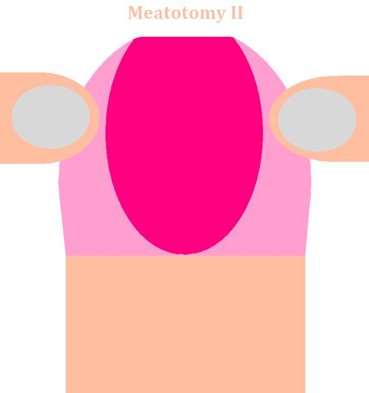 Enlarged urethral meatus